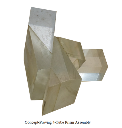 This is a photograph of a prototype prism assembly for a 4-tube colour camera